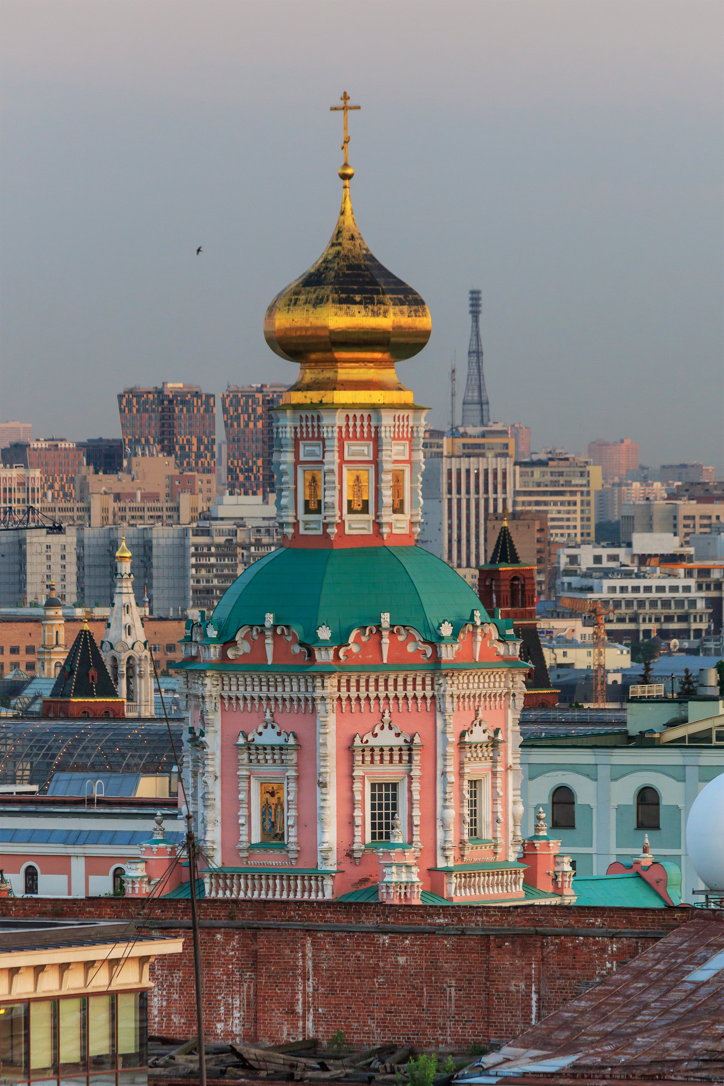 View from the Panoramic view point of the Central Children’s Store at Lubyanka Square in Moscow